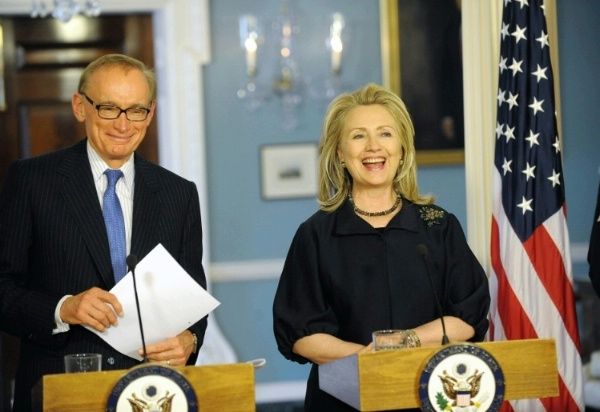 Secretary of State Hillary Clinton holds a bilateral meeting with Australian Foreign Minister Bob Carr, at the Department of State in Washington D.C.